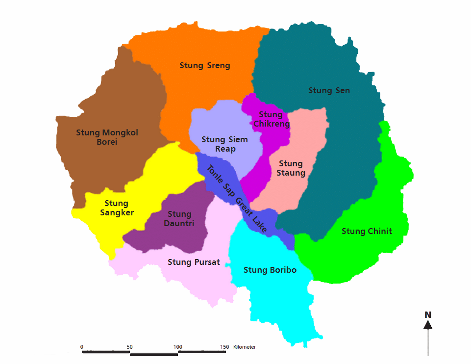 Sub-basins of Tonle Sap area